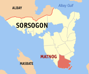 Map of Sorsogon showing the location of Matnog